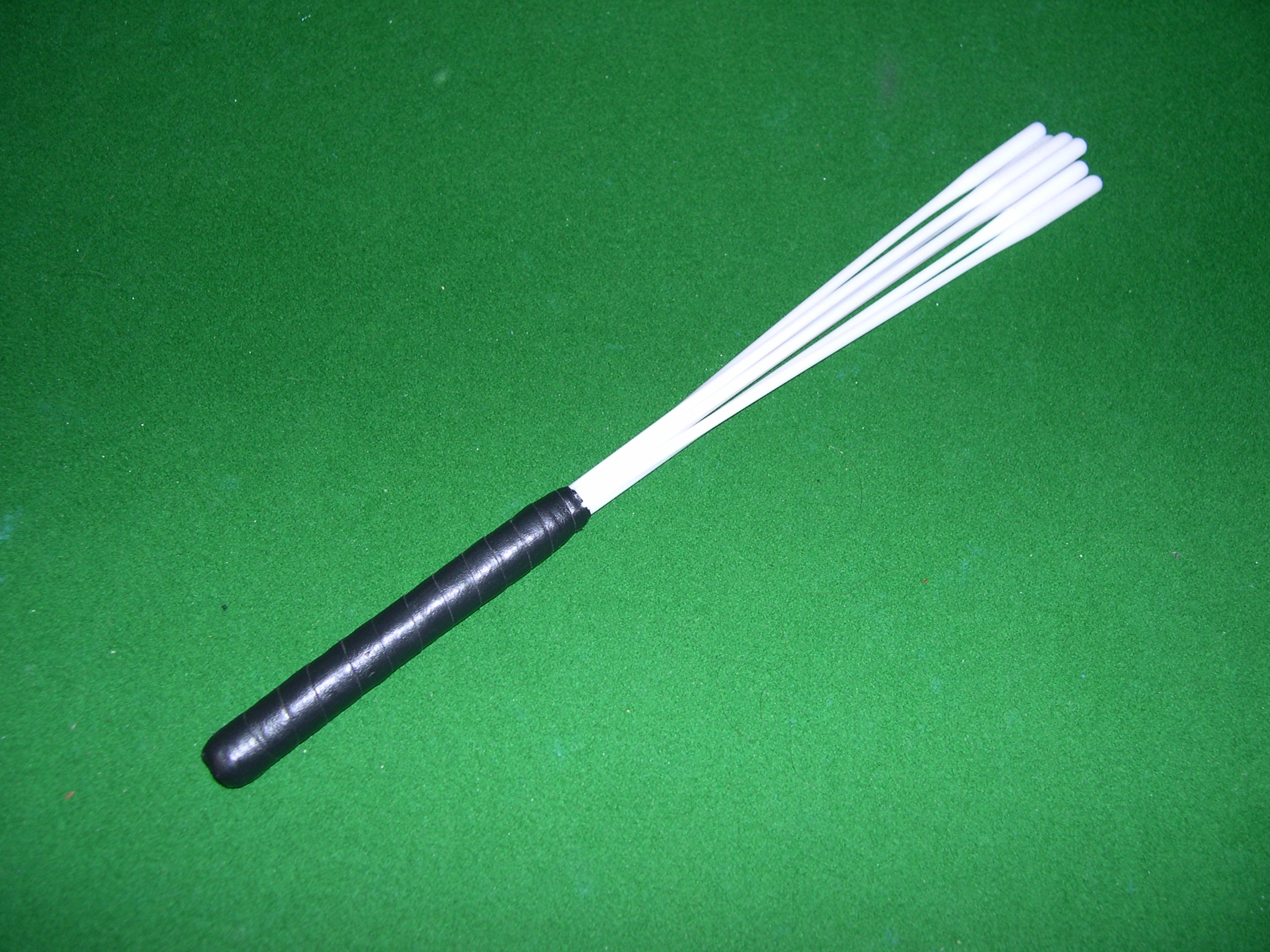 Tamborim stick or whip made of plastic (polyacetal).